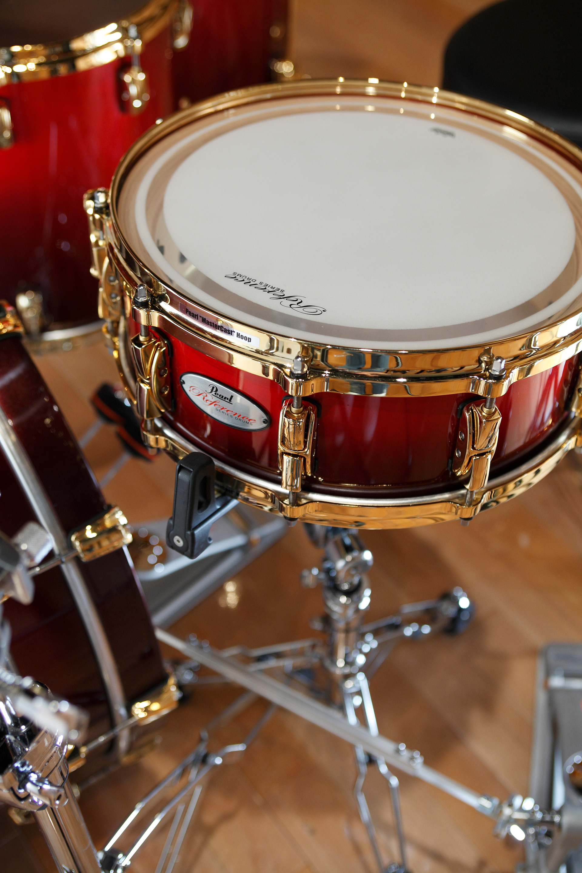 Pearl Reference Snare drum with gold hardware